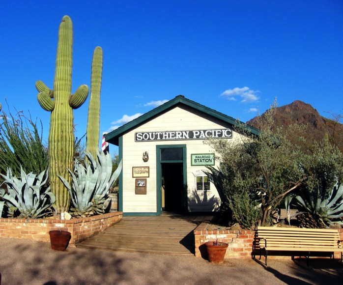 Saguaros, agave and other desert plants flank the railroad station building near the entrance of Old Tucson Studios. The building is not part of the small gauge train ride, nor adjacent to the antique steam locomotive at this combination movie location and theme park in Avra Valley outside Tucson, Arizona.